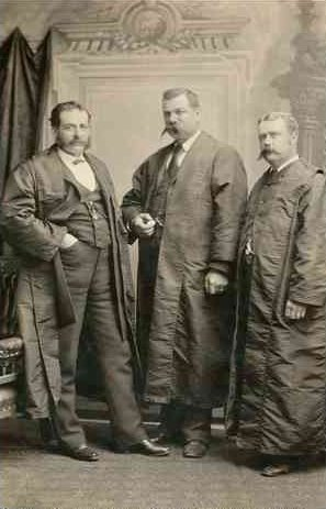 Group photograph of three Aldermen of the City of Adelaide who also served as Mayor: Judah Moss Solomon (Mayor of Adelaide, 1869-71) James Shaw (Mayor of Adelaide, 1888-9) Frederick Bullock (Mayor of Adelaide, 1891-2)